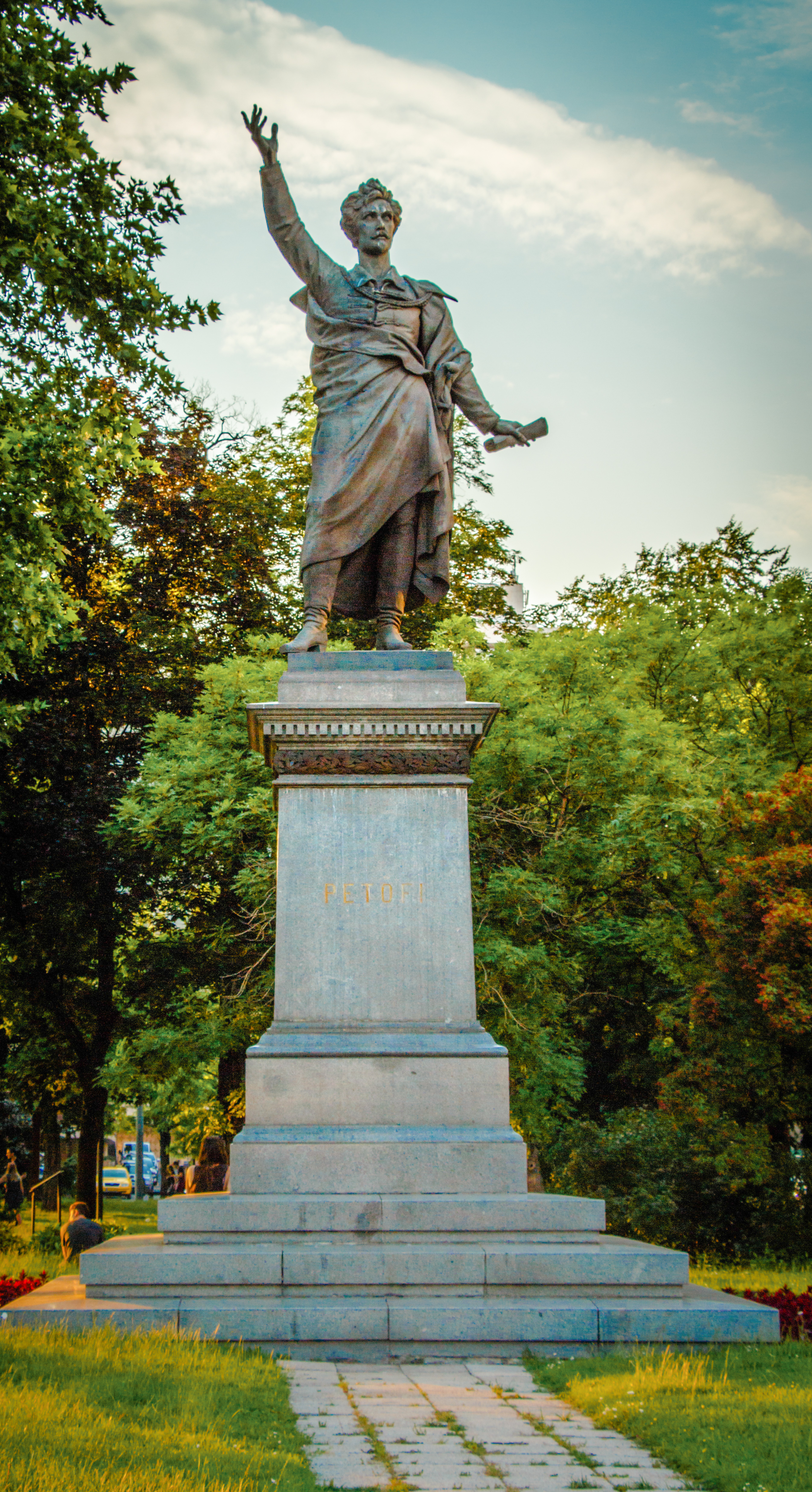 Petőfi monument in Budapest